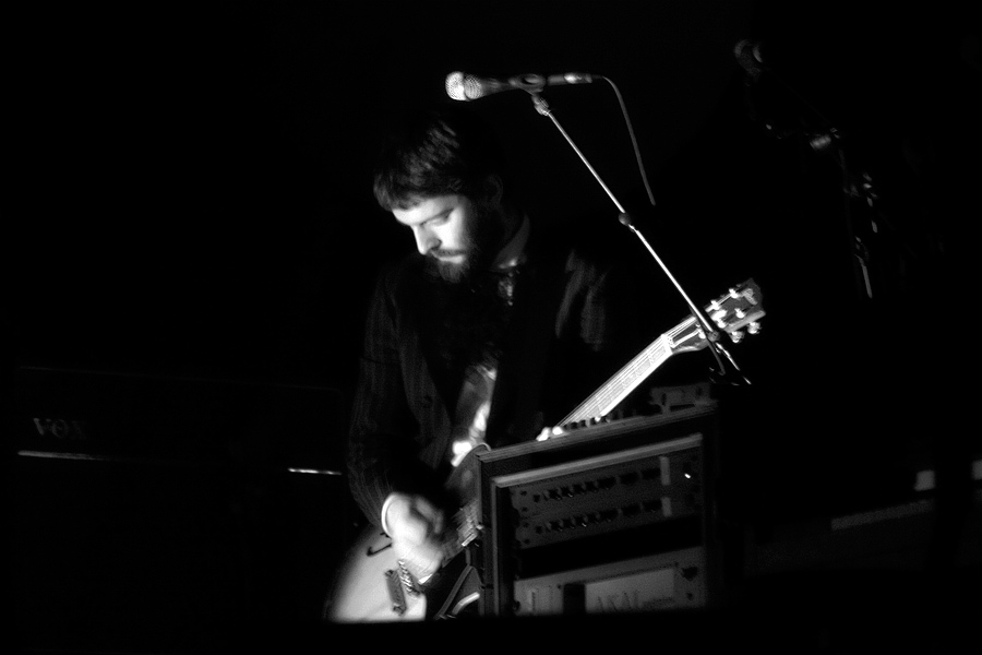 Kjartan Sveinsson at Alexandra Palace, 21th November 2008